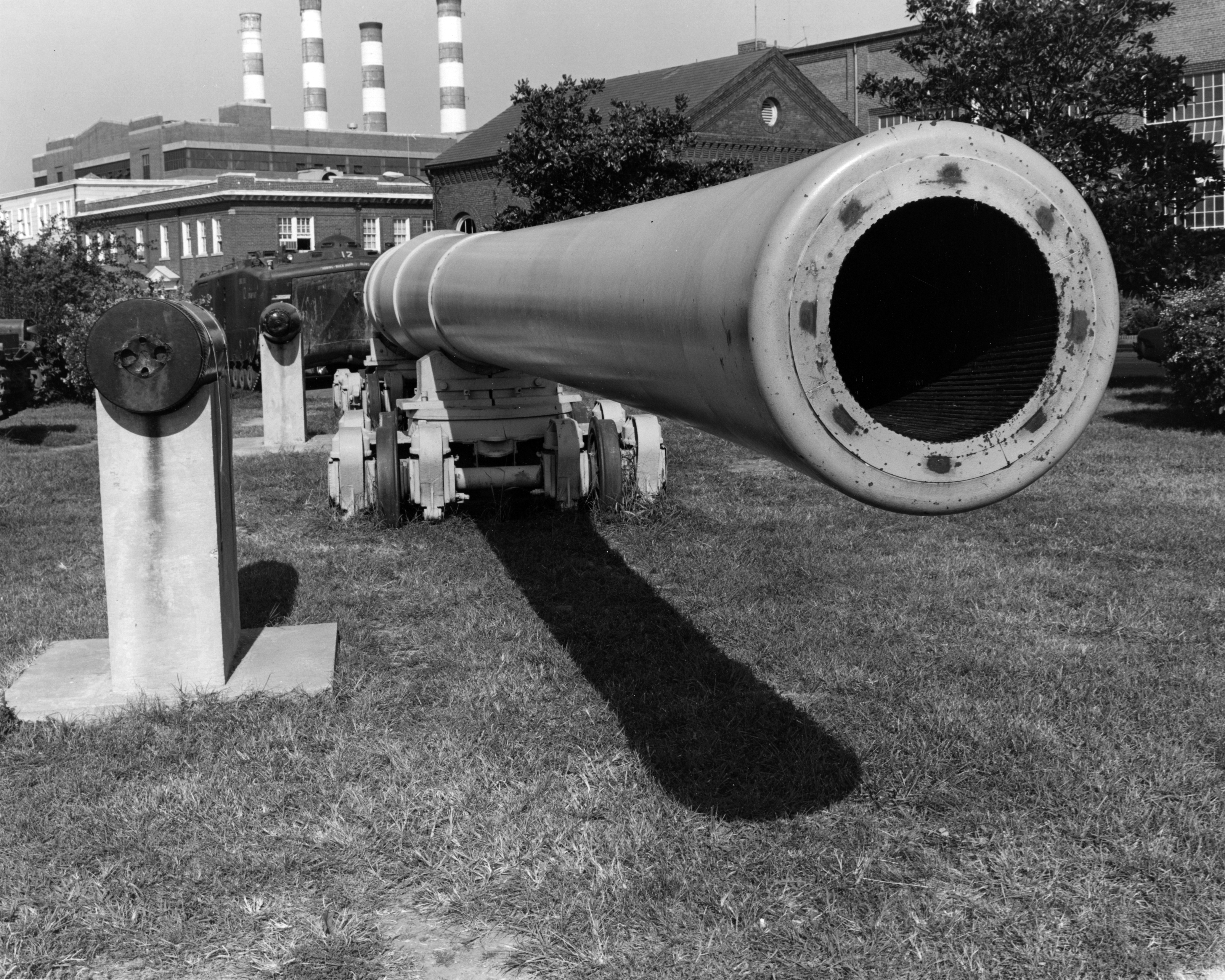 On display in East Willard Park, Washington Navy Yard, D.C., in October 1972. This gun is Number 111, built at the Washington Navy Yard in 1922 for planned installation on the abortive South Dakota (BB 49-54) class battleships and Lexington (CC 1-6) class battle cruisers. Note railway trucks supporting the gun barrel. The two sixteen-inch projectiles displayed alongside the gun are inert shells fired by USS New Jersey into San Clemente Island, California, during shore bombardment practice in 1968. U.S. Naval History and Heritage Command Photograph.